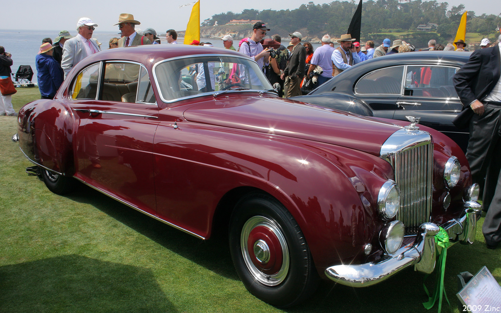 Pebble Beach Concours d'Elegance, Aug 16, 2009